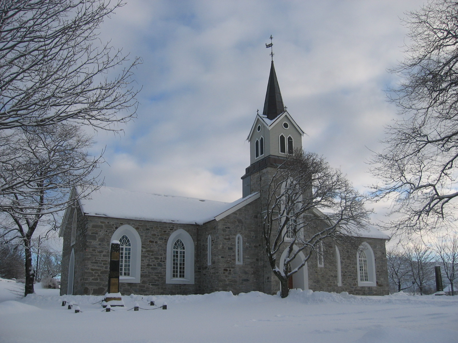 Brønnøy church, Norway, in February